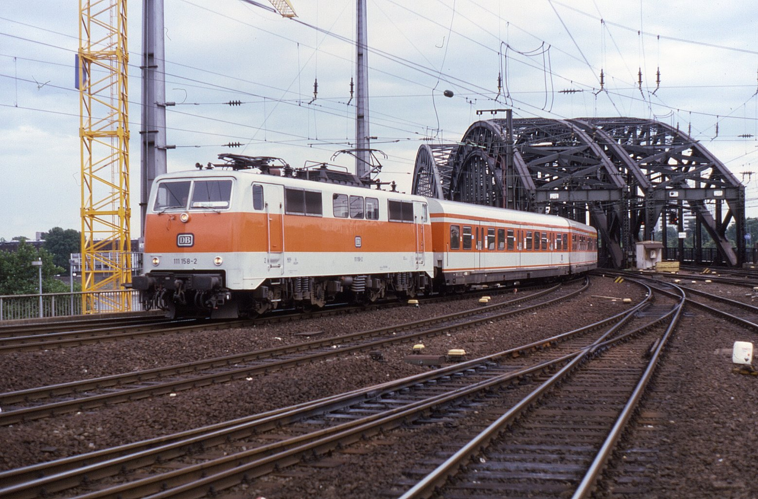 In orange and white Rhine-Ruhr S-Bahn livery, 111.158 is seen coming of the Hohenzollernbrücke in to Köln Hbf 29 July 1985. A large fleet of class 111s worked in push-pull formation on a frequent service in the area.